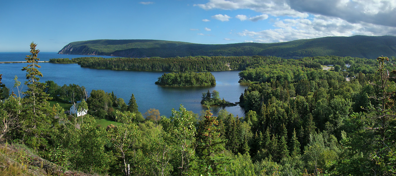 Cape Breton Highlands National Park, Cape Breton Island, Nova Scotia, Canada. In the foregound, the Freshwater Lake. Behind it on the left, the South Bay Ingonish opens up to the Atlantic Ocean beyond the visible Cape Smokey. On the right is partially visible the town of Ingonish Beach.